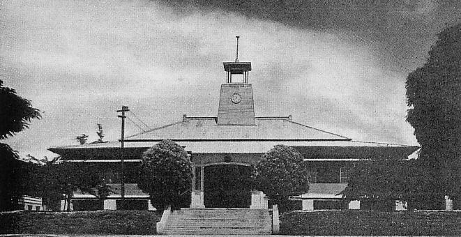 Nan'yo-cho(Administrative Headquarters of the South Pacific Mandate) Saipan Branch Office